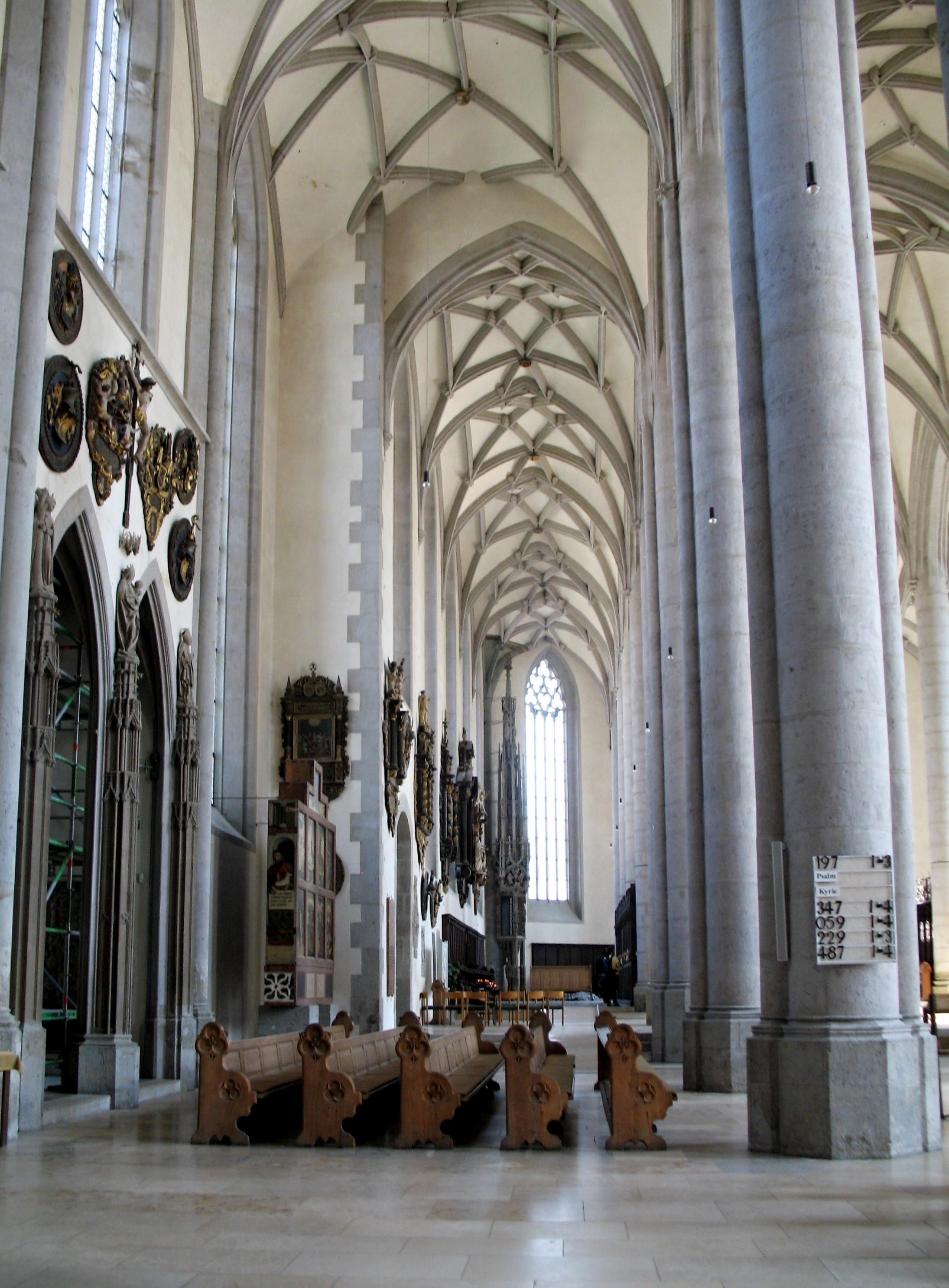 Interior of St. Georg in Nördlingen, Bavaria